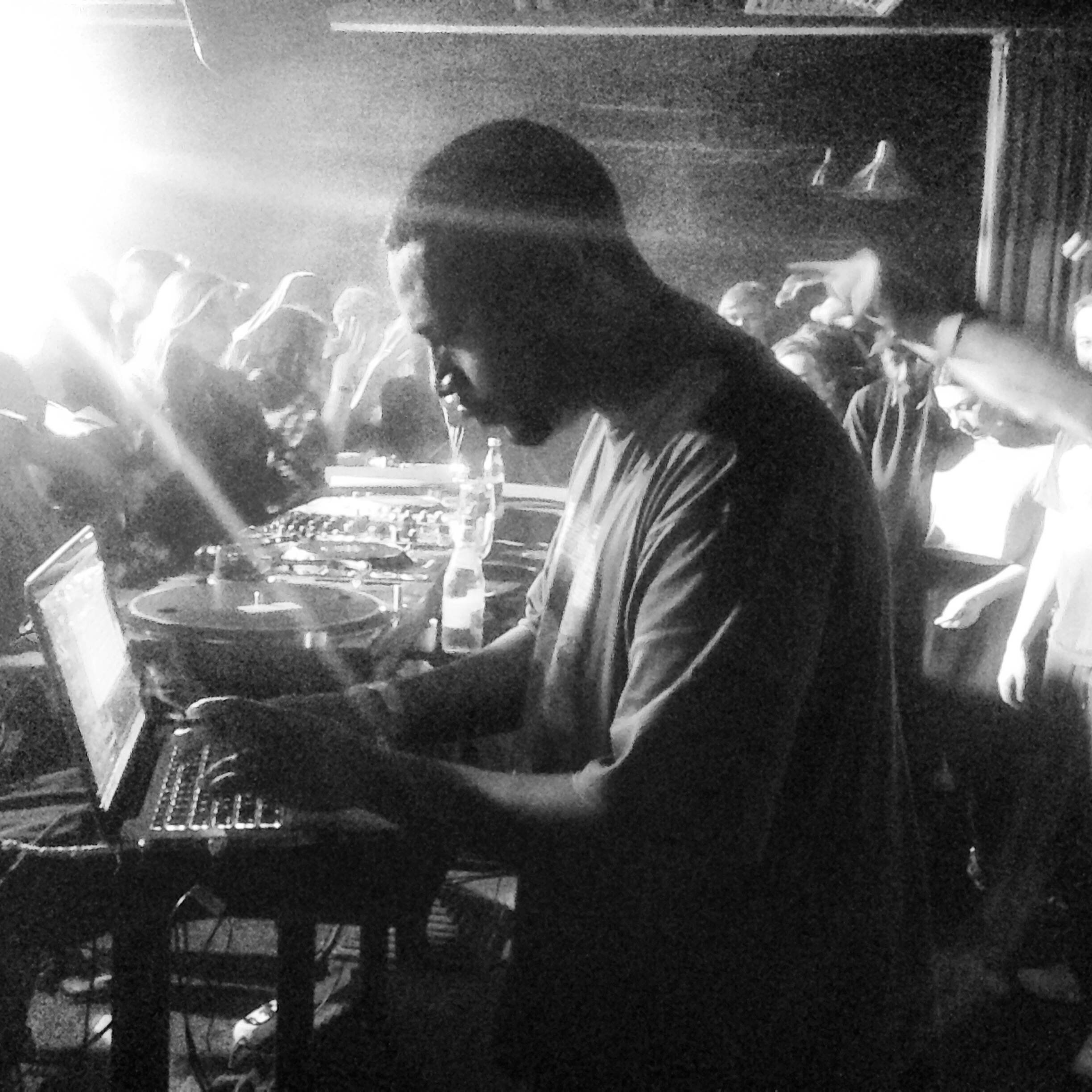 DJ Rashad, Artplay, Moscow, 30 March 2013